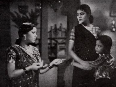 Screenshot from the magazine Filmindia (1940)